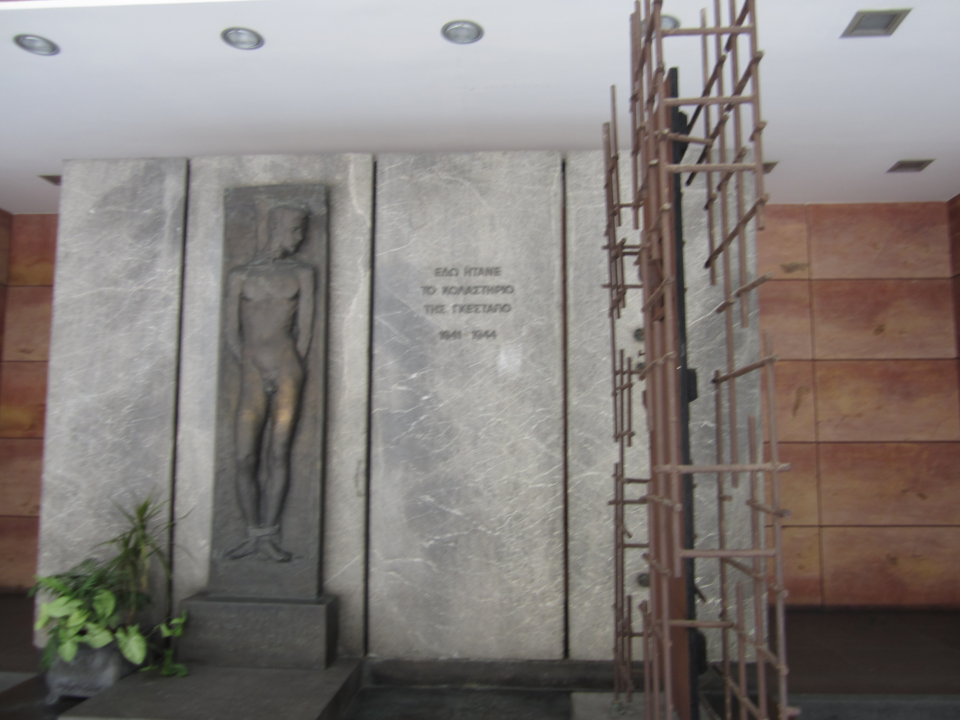 The entrance to the Department of the Gestapo, Merlin street, Athens